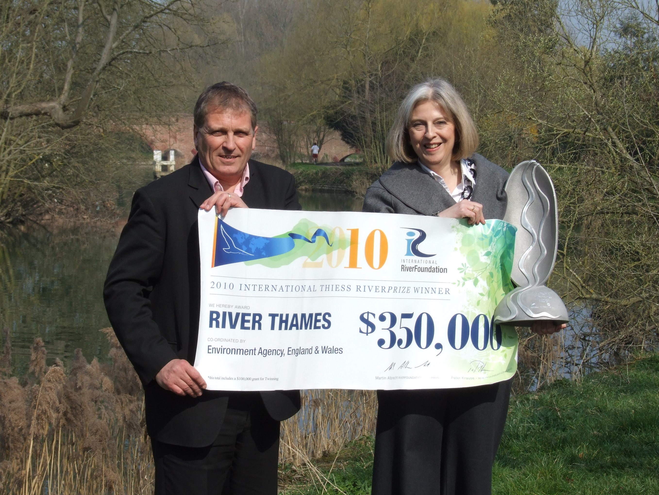 Alastair celebrates the Thames International Riverprize win with Theresa May MP